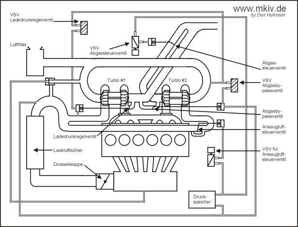 Toyota Supra MKIV Sequential Turbo System 001